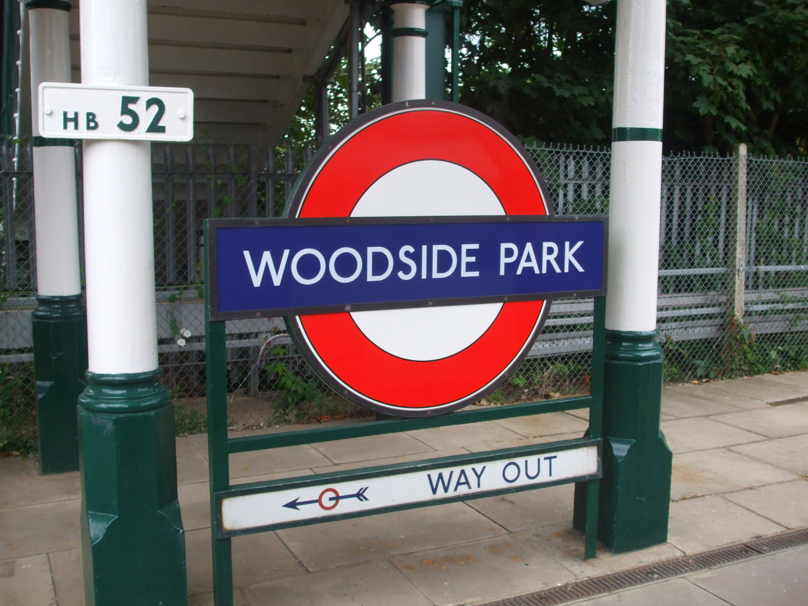 Woodside Park tube station roundel, northbound platfrom